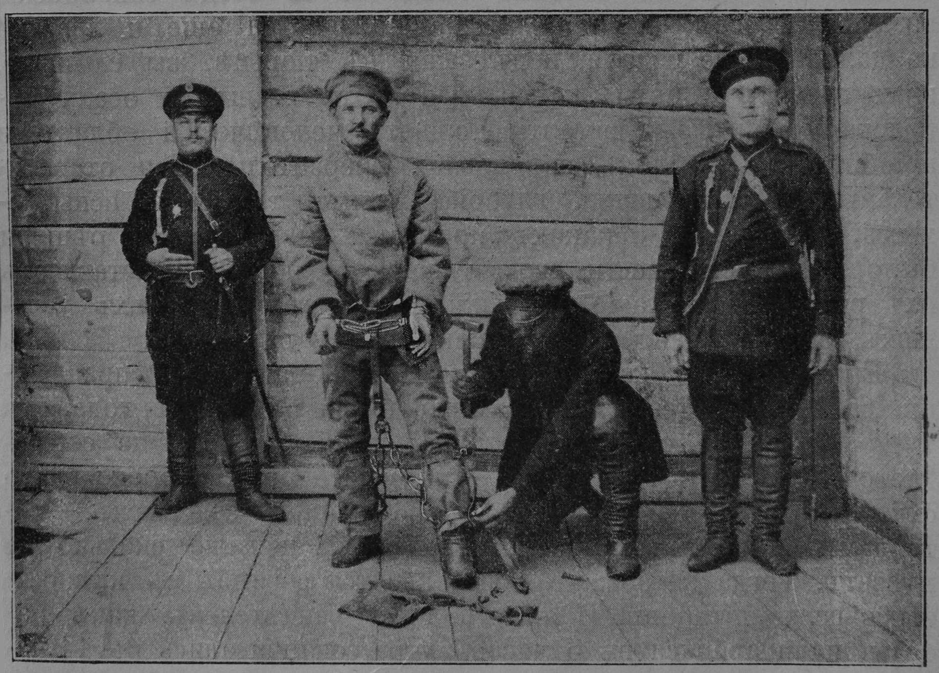 Chaining